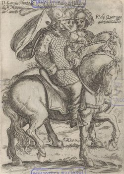 picture of Hurtado de Mendoza, Pedro de Villagra, and Rodrigo de Quiroga, taken from the Spanish wiki [1] From es wiki